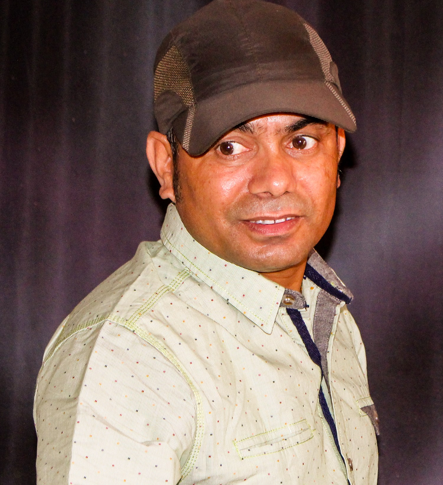 Latest photo of Gopal Chandra Lamichhane.